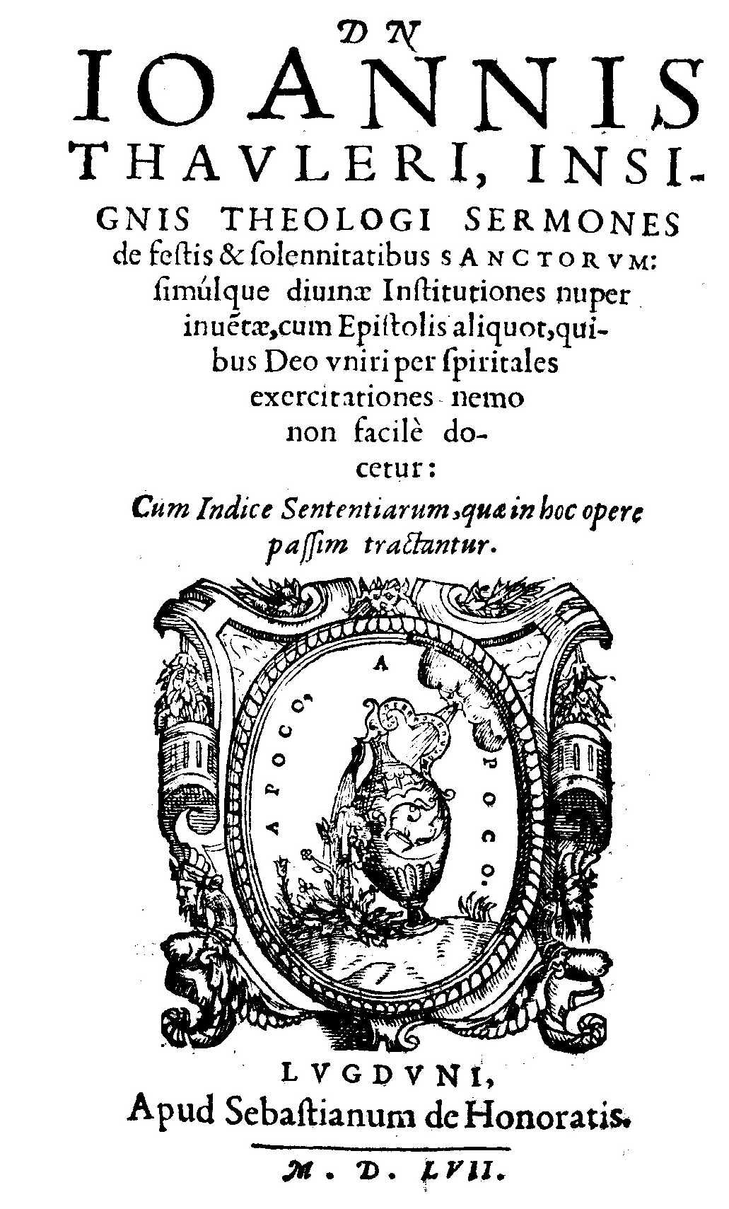 Front page Sermons from Johannes Tauler